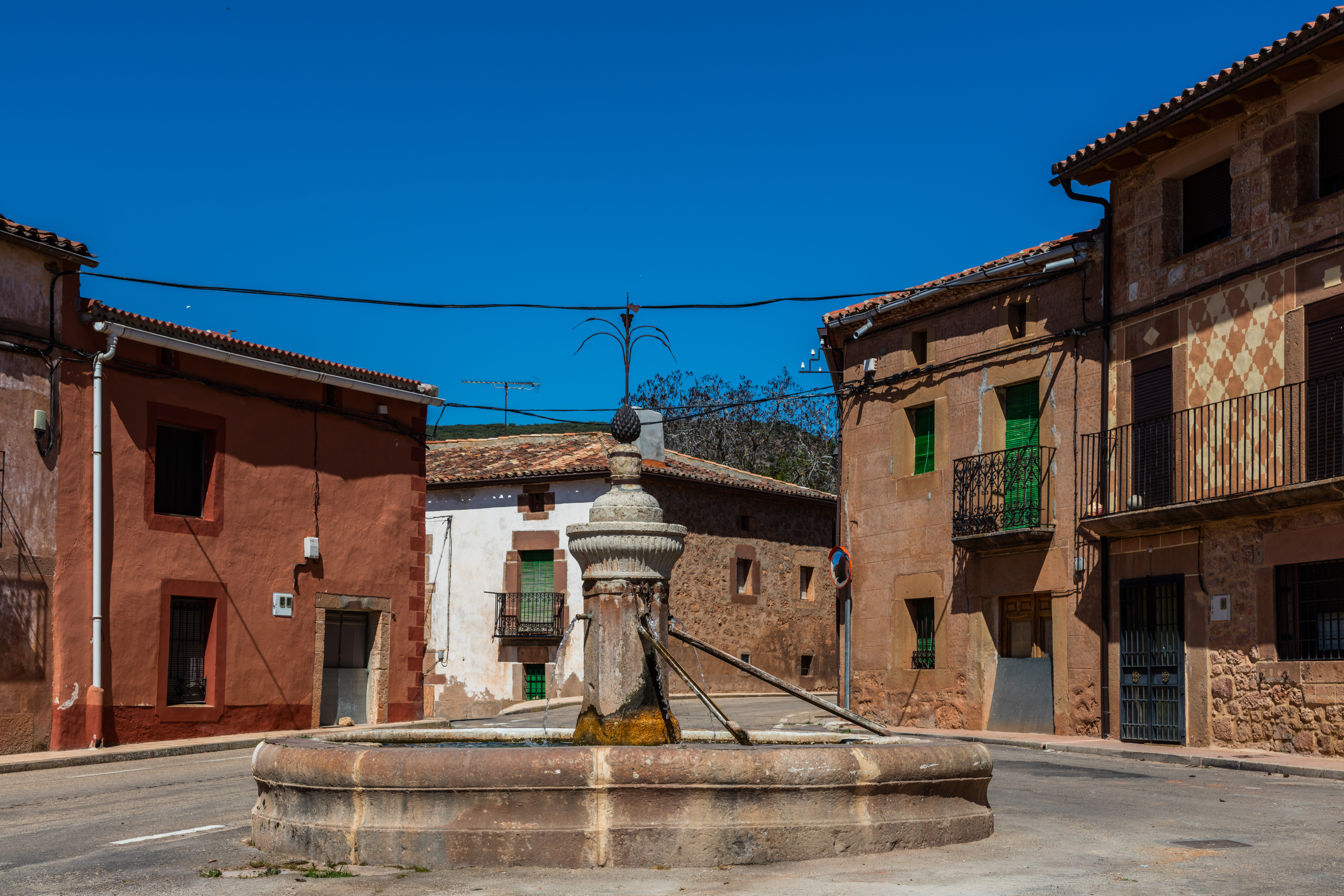 Pillory, Miedes de Atienza, Guadalajara, Spain